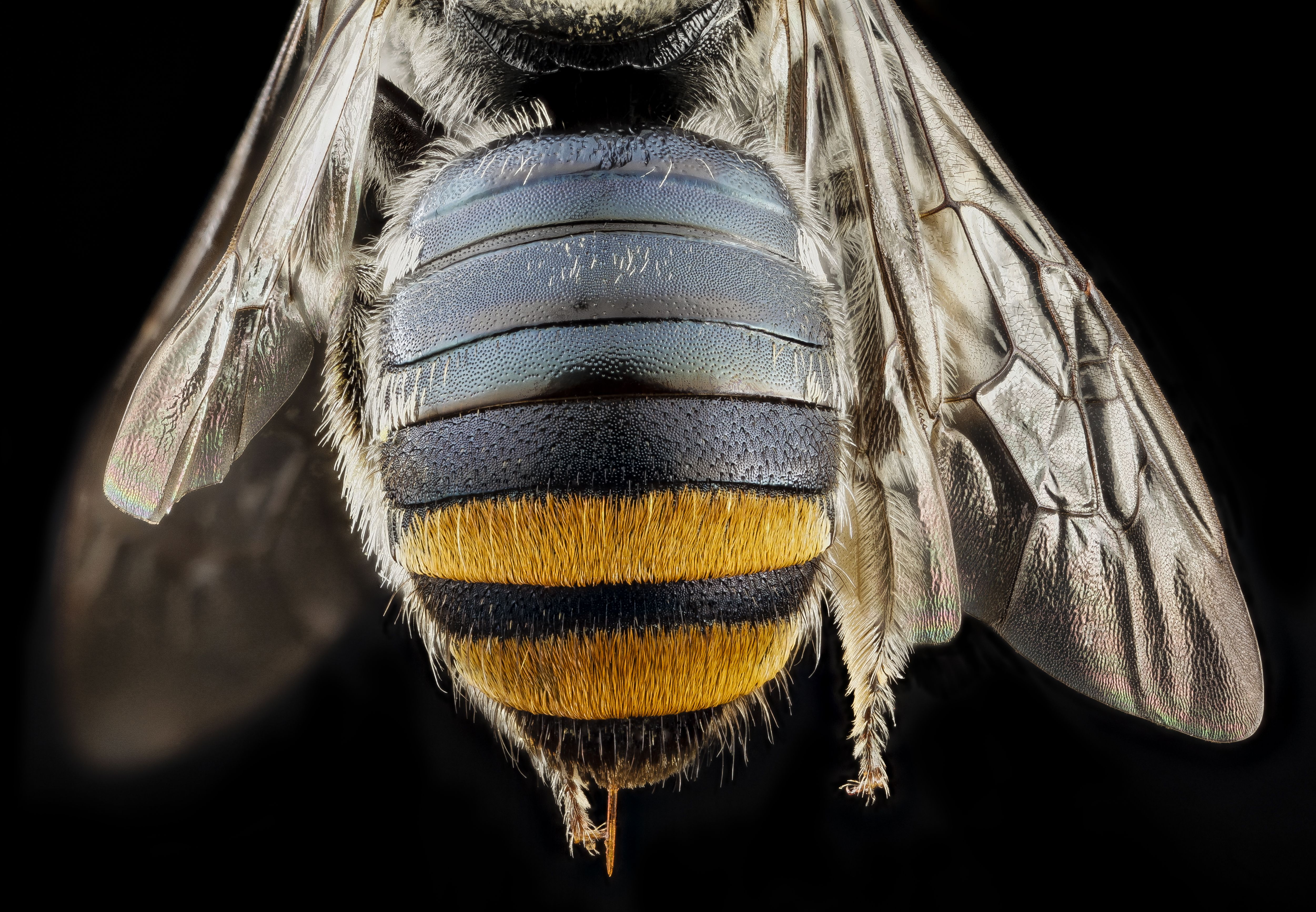 Lipotriches , Plain Sweat Bee , collected in Australia This is one of the bees in which the males are known to form sleeping aggregations – small groups to dozens of individuals clustering together on the same twig late in the afternoon and remaining there until after dawn. There may be quite a lot of “jockeying for position” as males alight too close to another individual with low key aggressive interactions. Some clusters might contain more than one species. There has been little research on the reason for this aggregating behavior, although safety in numbers might play a role. 17:01, 17 November 2014 (UTC)17:01, 17 November 2014 (UTC) 0 17:01, 17 November 2014 (UTC)17:01, 17 November 2014 (UTC) All photographs are public domain, feel free to download and use as you wish. Photography Information: Canon Mark II 5D, Zerene Stacker, Stackshot Sled, 65mm Canon MP-E 1-5X macro lens, Twin Macro Flash in Styrofoam Cooler, F5.0, ISO 100, Shutter Speed 200 Further in Summer than the Birds Pathetic from the Grass A minor Nation celebrates Its unobtrusive Mass. No Ordinance be seen So gradual the Grace A pensive Custom it becomes Enlarging Loneliness. Antiquest felt at Noon When August burning low Arise this spectral Canticle Repose to typify Remit as yet no Grace No Furrow on the Glow Yet a Druidic Difference Enhances Nature now -- Emily Dickinson Want some Useful Links to the Techniques We Use? Well now here you go Citizen: Basic USGSBIML set up: USGSBIML Photoshopping Technique: Note that we now have added using the burn tool at 50% opacity set to shadows to clean up the halos that bleed into the black background from "hot" color sections of the picture. PDF of Basic USGSBIML Photography Set Up: ftp://ftpext.usgs.gov/pub/er/md/laurel/Droege/How%20to%20Take%20MacroPhotographs%20of%20Insects%20BIML%20Lab2.pdf Google Hangout Demonstration of Techniques: or Excellent Technical Form on Stacking: Contact information: Sam Droege 301 497 5840